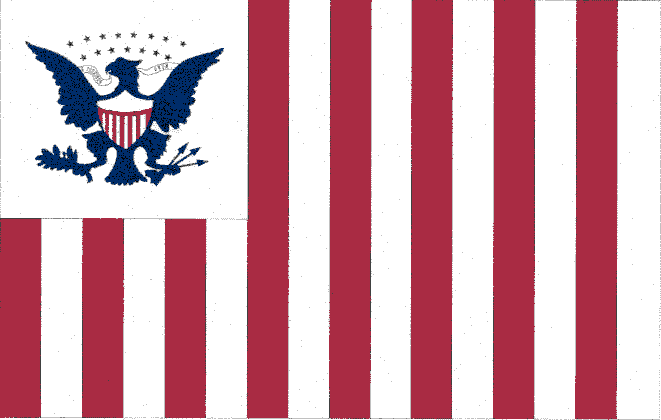 Ensign of the United States Revenue-Marine (1799)